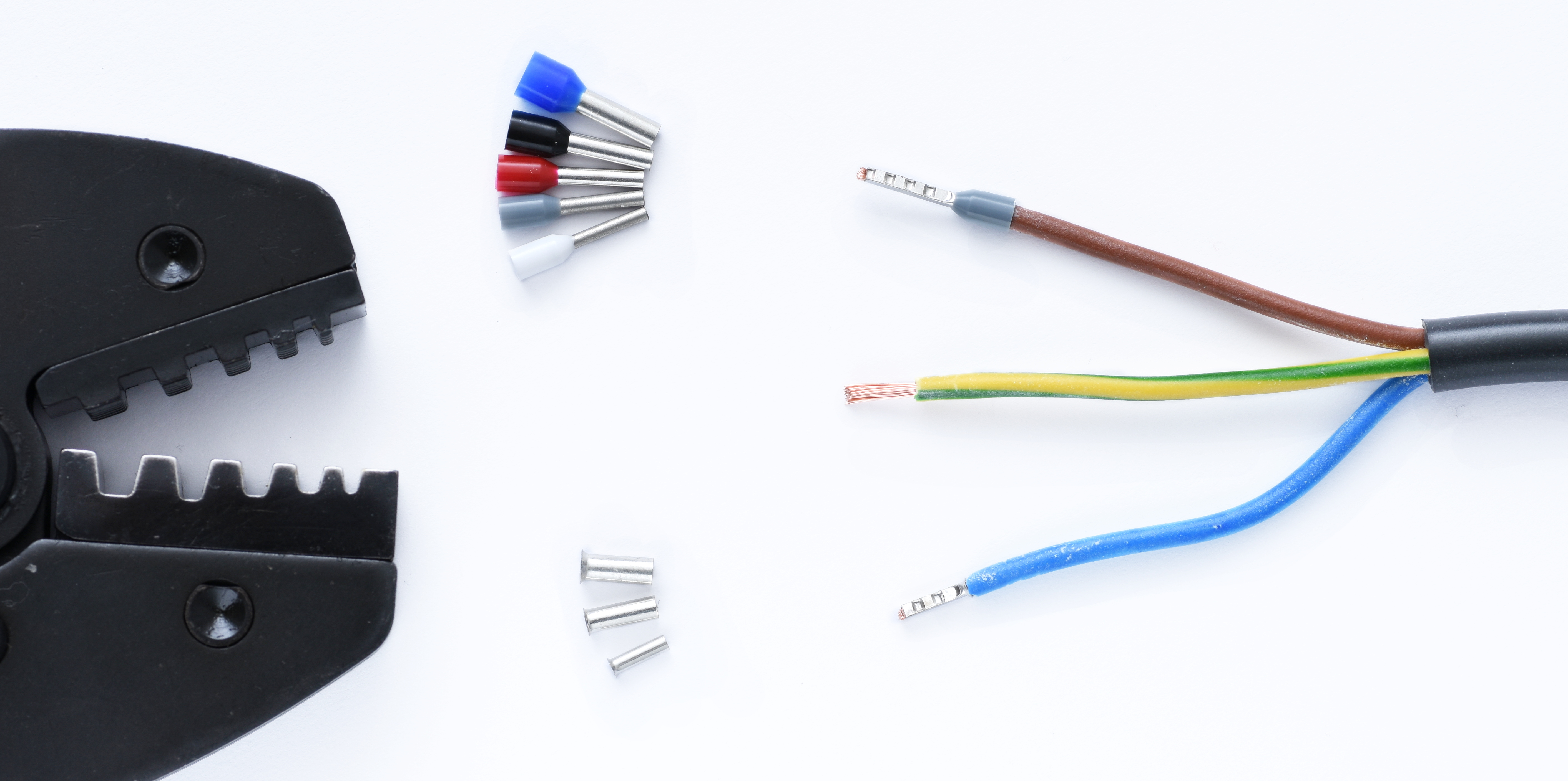 Wire ferrules with crimping plier. The wire ferrules on top are insulated and protect the wire from snapping off.